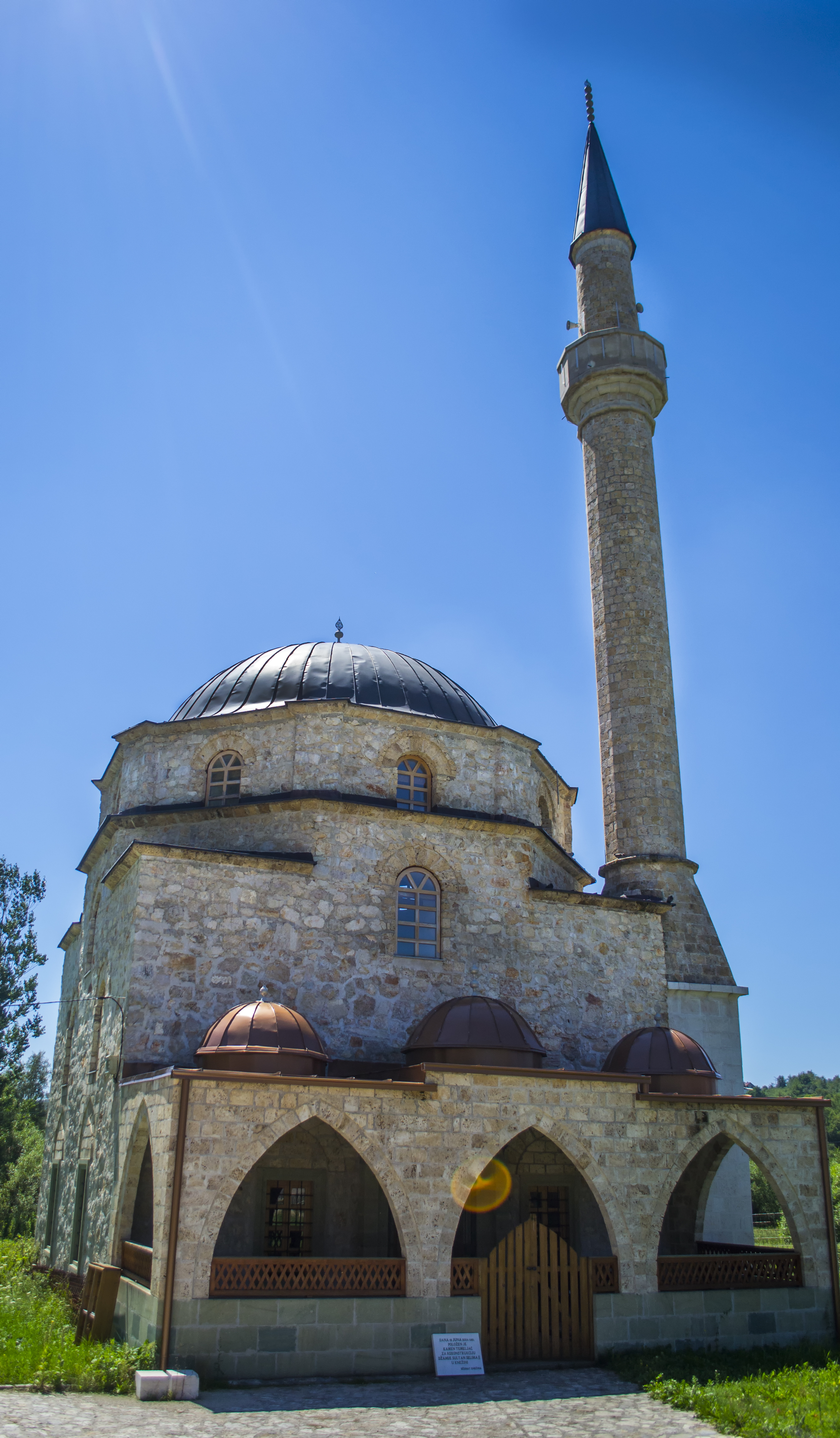 This image was uploaded as part of Trace of Soul 2016.